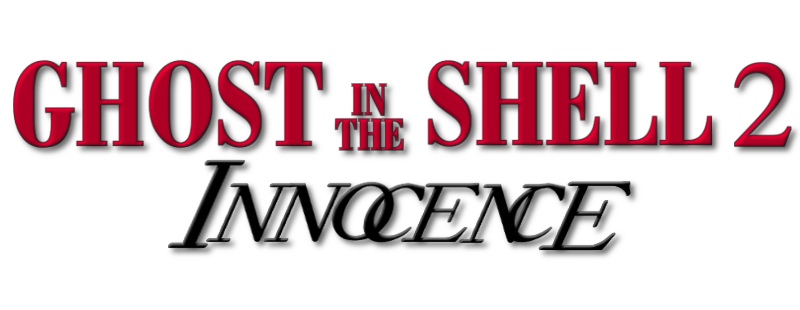 The logotype for the animated film Ghost in the Shell 2: Innocence